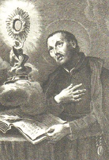 St. Francis Caracciolo